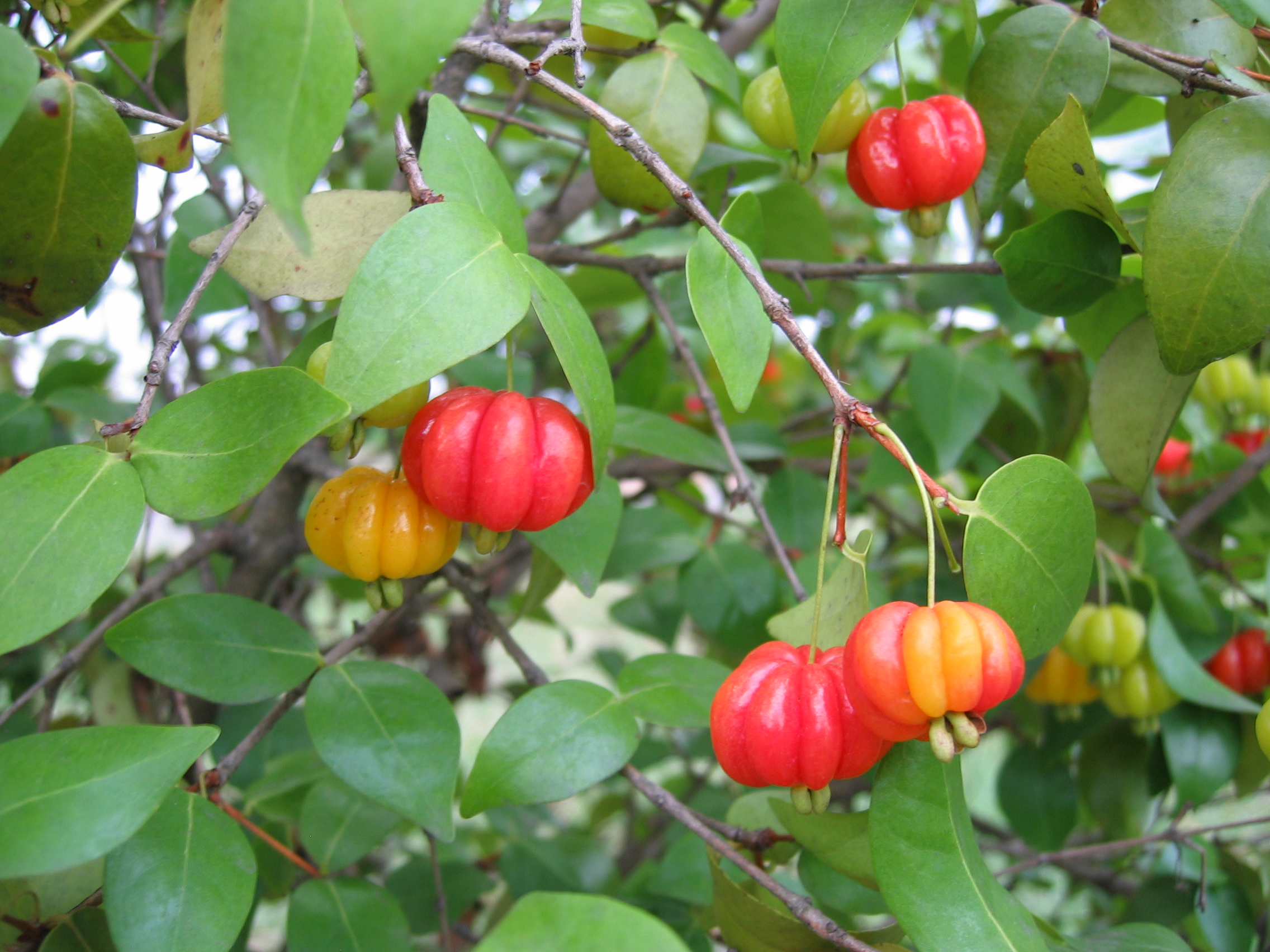 Pitanga (Eugenia uniflora) at CIAT